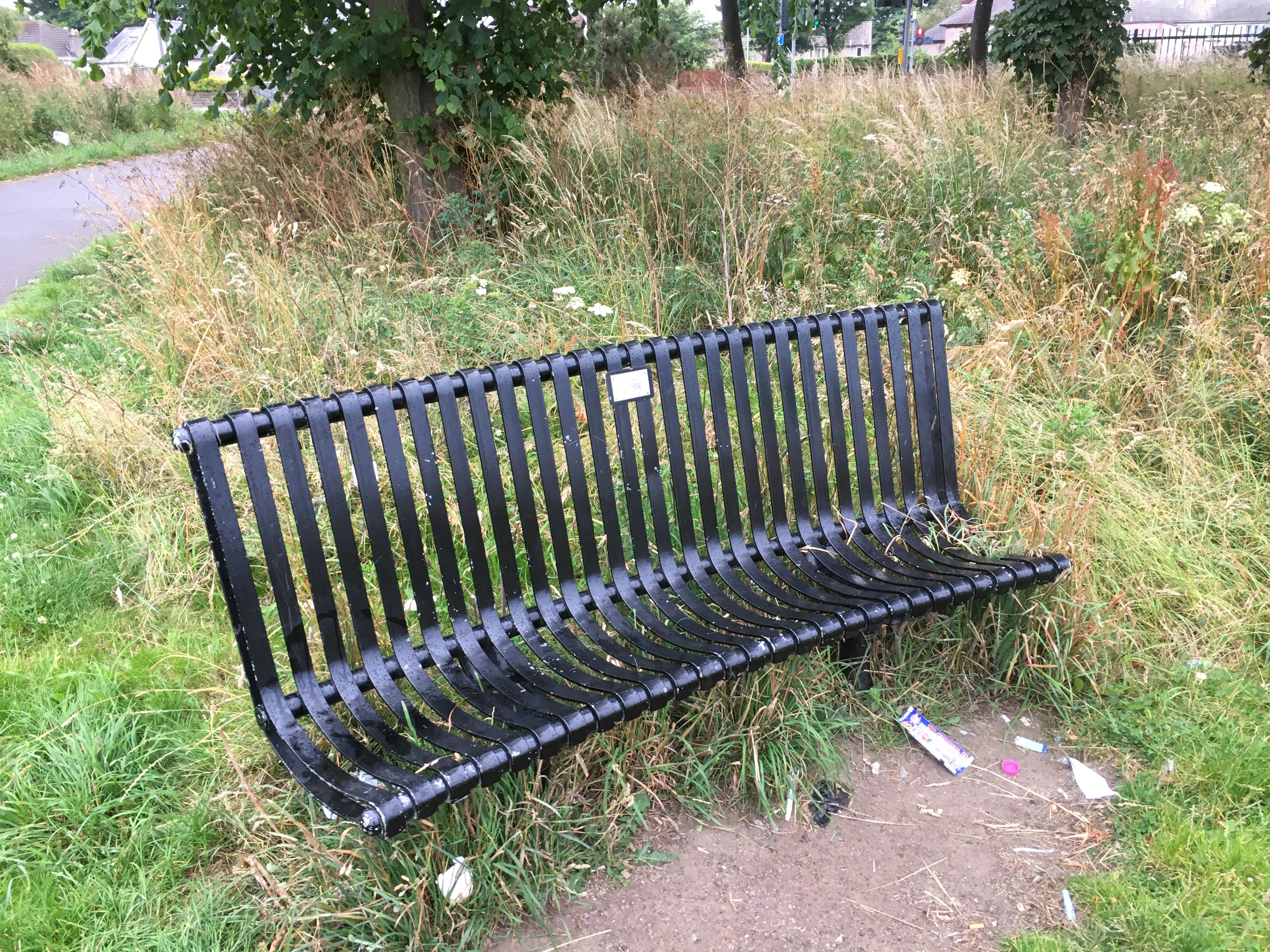 A grant was awarded in 2008 by the City of Edinburgh Council Parks and Gardens Community Grants to the Portobello Park Action Group